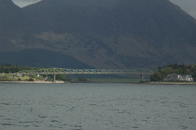 Ballachulish Bridge. A view from the sea. In the days before the bridge, the traffic queues for the small ferry were huge - I recall getting off the bus half a mile short of the ferry to go across to catch the connecting bus to Fort William, they didn't bother to collect the penny either!